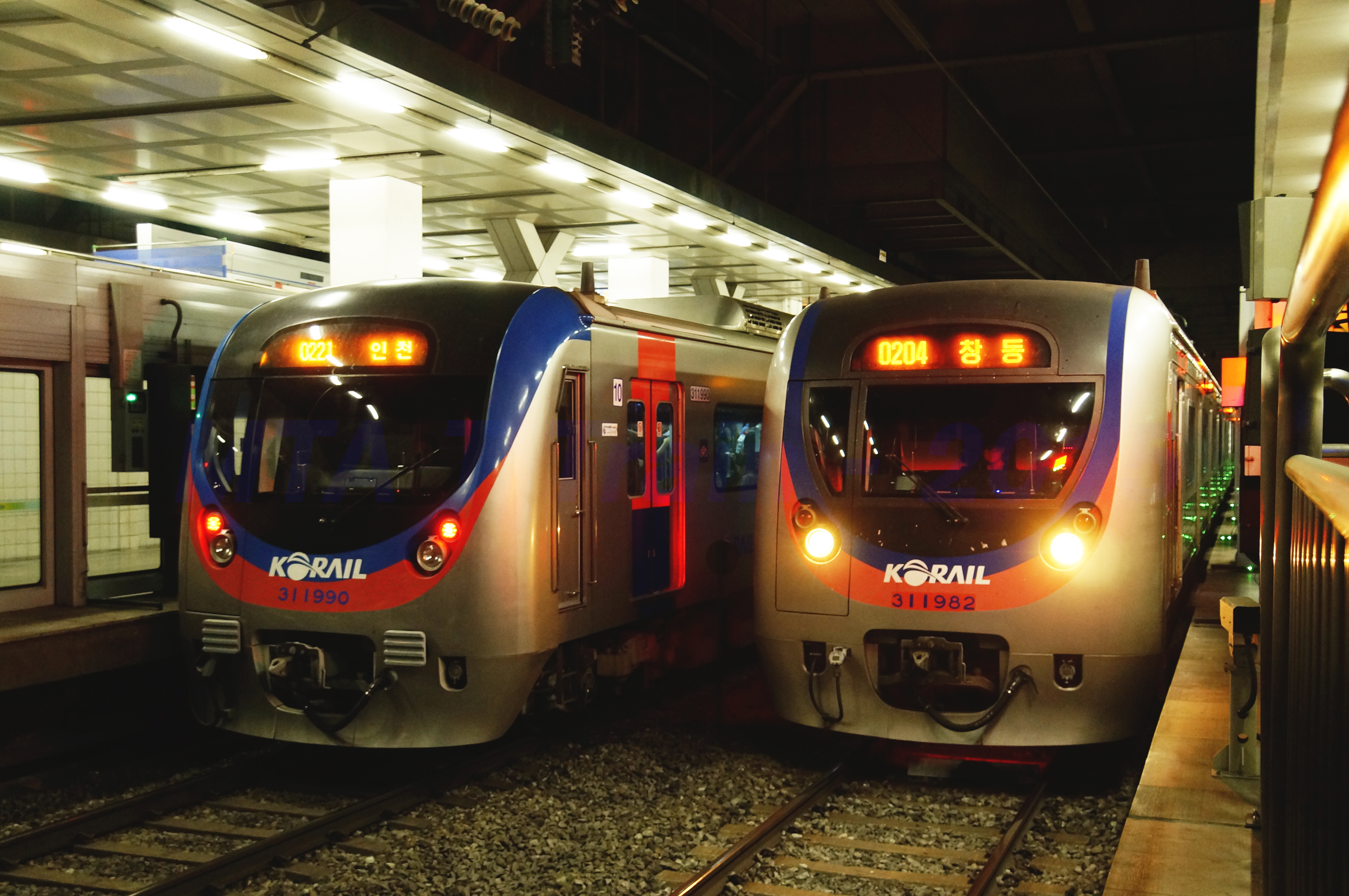 Incheon-bound Korail Line 1 train of Korail 311000-series cars (trainset 311x90) & Chang-dong-bound Korail Line 1 train of Korail 311000-series cars (trainset 311x82) both at Yongsan.